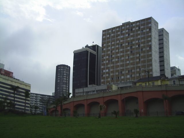 Archs in downtown of São Paulo City.